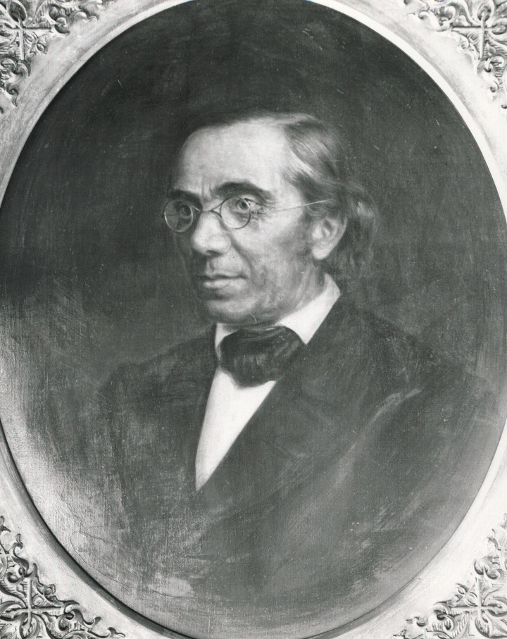 Portrait of Dr. Augustin Gattinger by George Dury, Tennessee State Library and Archives. Note: Botanist. Emigrated from Germany to US in 1849. Married Josephine Dury, sister of artist George Dury. Published "Flora of Tennessee" in 1901.